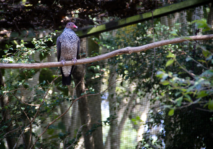 An adult Scaled Pigeon at Zooparque Itatiba, São Paulo State, Brazil.